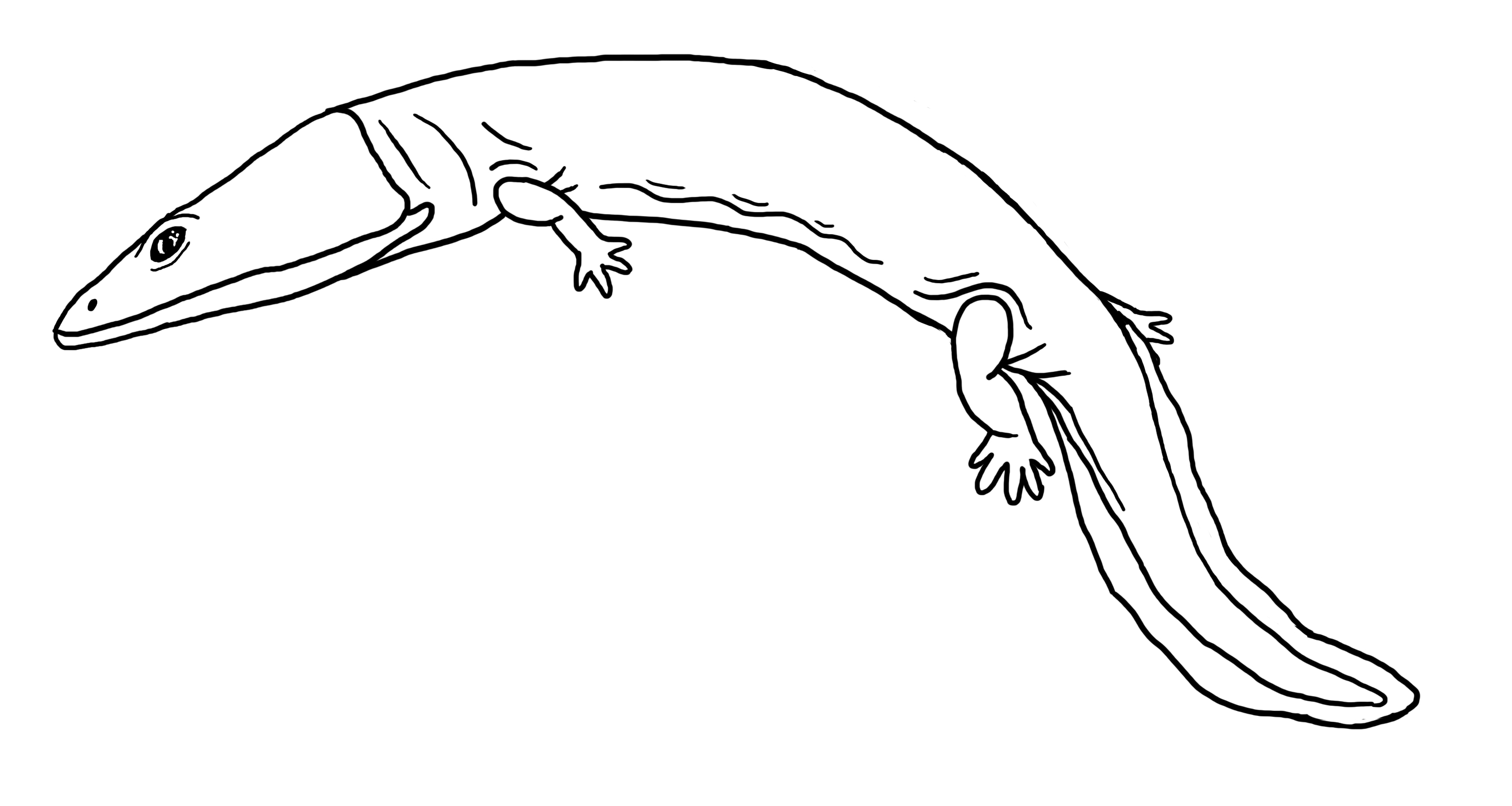 Life restoration of Isodectes obtusus. Based on the figures in "The cranial morphology and taxonomy of the saurerpetontid Isodectes obtusus comb. nov. (Amphibia: Temnospondyli) from the Lower Permian of Texas" by Sandra E. K. Sequeira (Zoological Journal of the Linnean Society 122(1-2): 237-259).